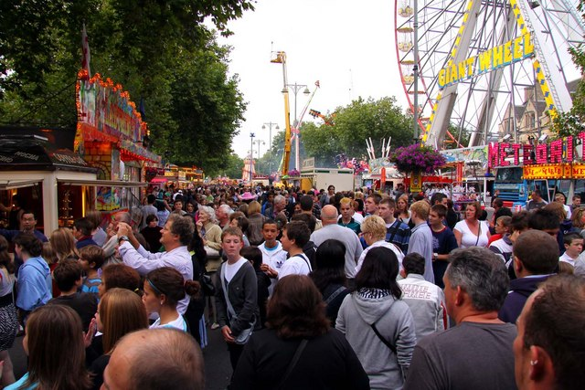 St Giles Fair in Oxford St Giles Fair is held every year on the Monday and Tuesday after the first Sunday in September